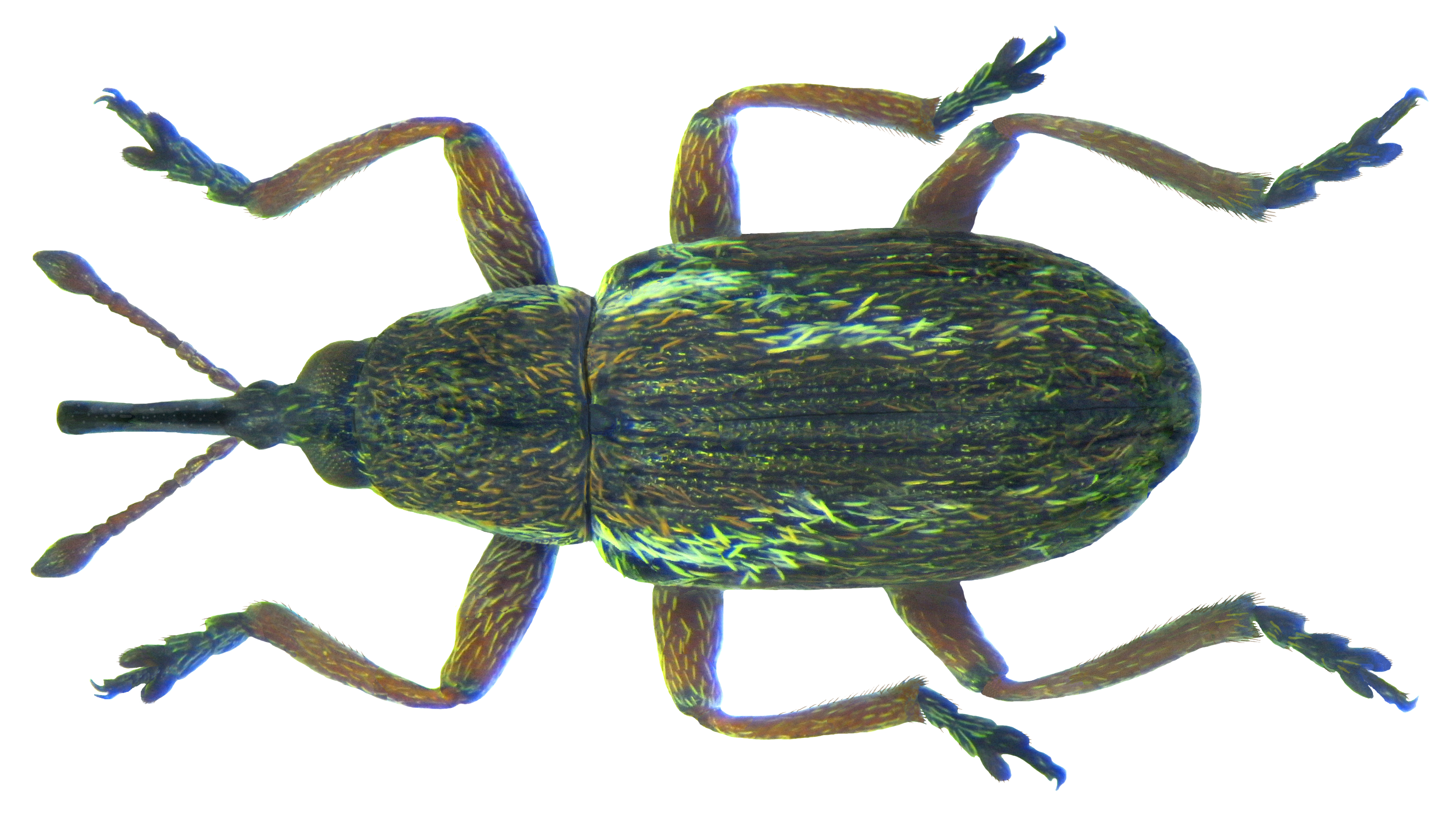 Family: Apionidae Size: 2,4-3 mm Origin: Southwest Asia, Europe, North Africa Ecology: development in the seeds of Sarothamnus scoparius Location: Germany, Bavaria, Upper Franconia, Selbitz leg.det. U.Schmidt, 14.VI.2004 Photo: U.Schmidt, 2012